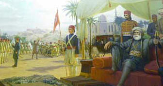 Muhammad Ali Pasha of Egypt, with newly formed Ottoman Egyptian army.